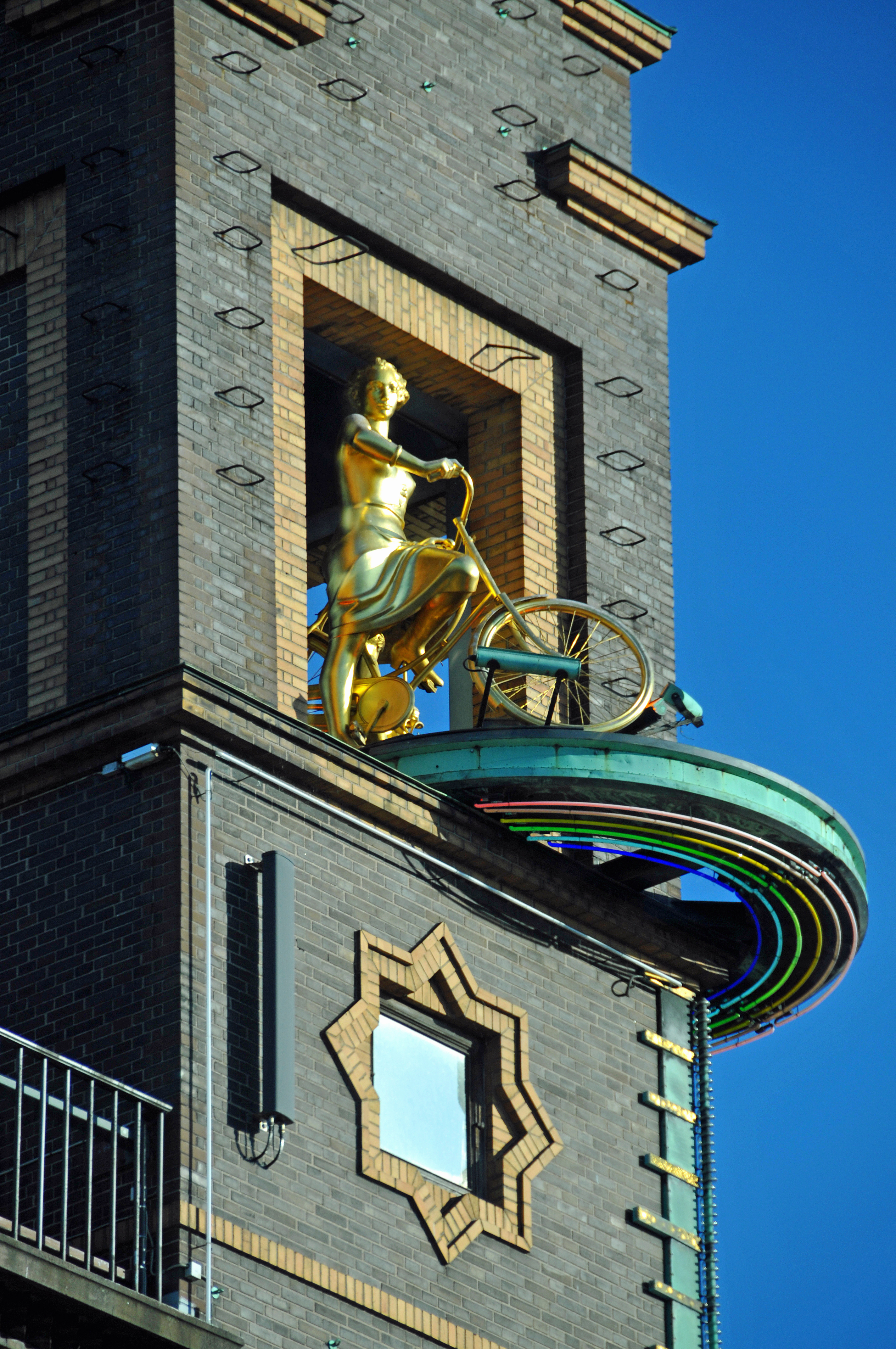 Facade detail of Richshuset, a building on the corner of Rådhuspladsen and Vesterbrogade in Copenhagen, Denmark, showing brickwork, architectural details and the mobile, wheather-forcasting sculpture The Wheather Girls by Einar Utzon-Frank.